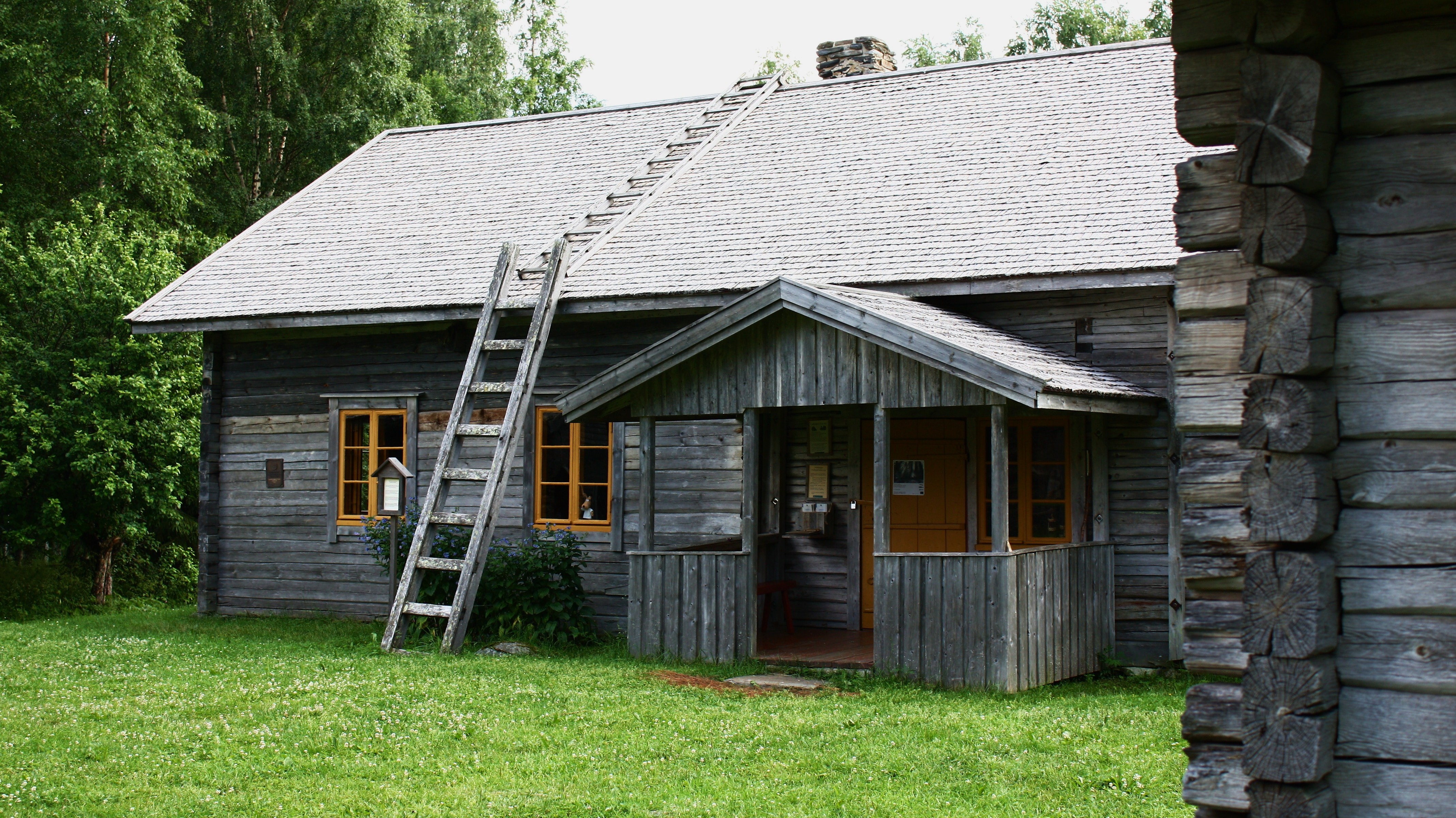 The main house of the Telkkämäki slash-and-burn heritage farm at Telkkämäki Nature Reserve in the municipality of Kaavi in Northern Savonia, Finland. The farm dates to the beginning of the 20th century. The main house at the farm was built in the late 1800s. The house has been restored to what it was like in the early 1900s. In addition to the main building the grounds also include a barn, a drying barn, granaries, and a smoke sauna.